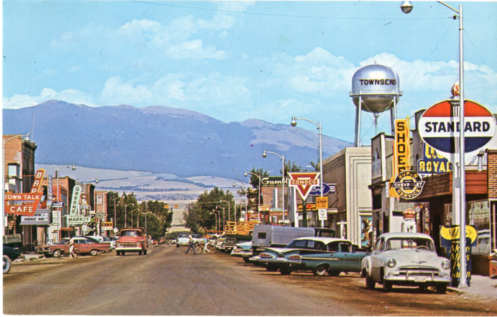 Mainstreet Townsend, Montana